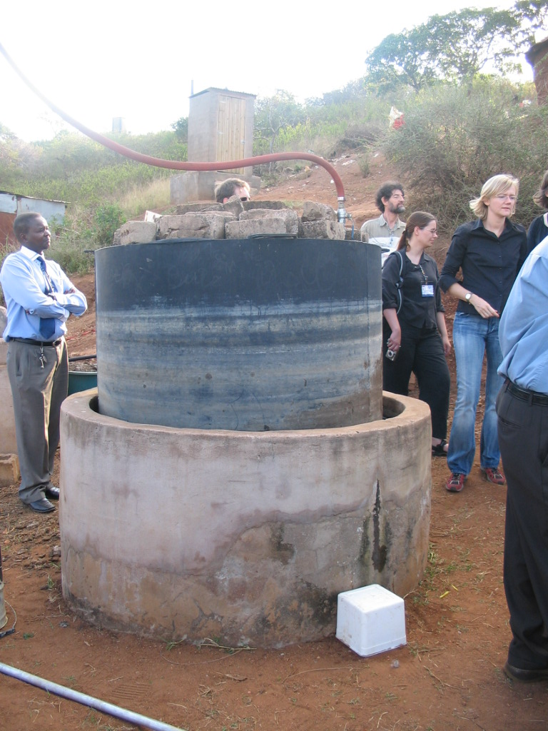 With movable dome. Photo by E. von Muench, May 2005